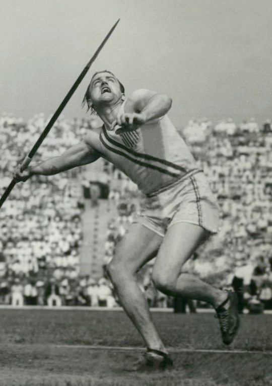 1936 Press Photo Olympic Veteran, Lee Bartlett of Detroit tossing the Javelin